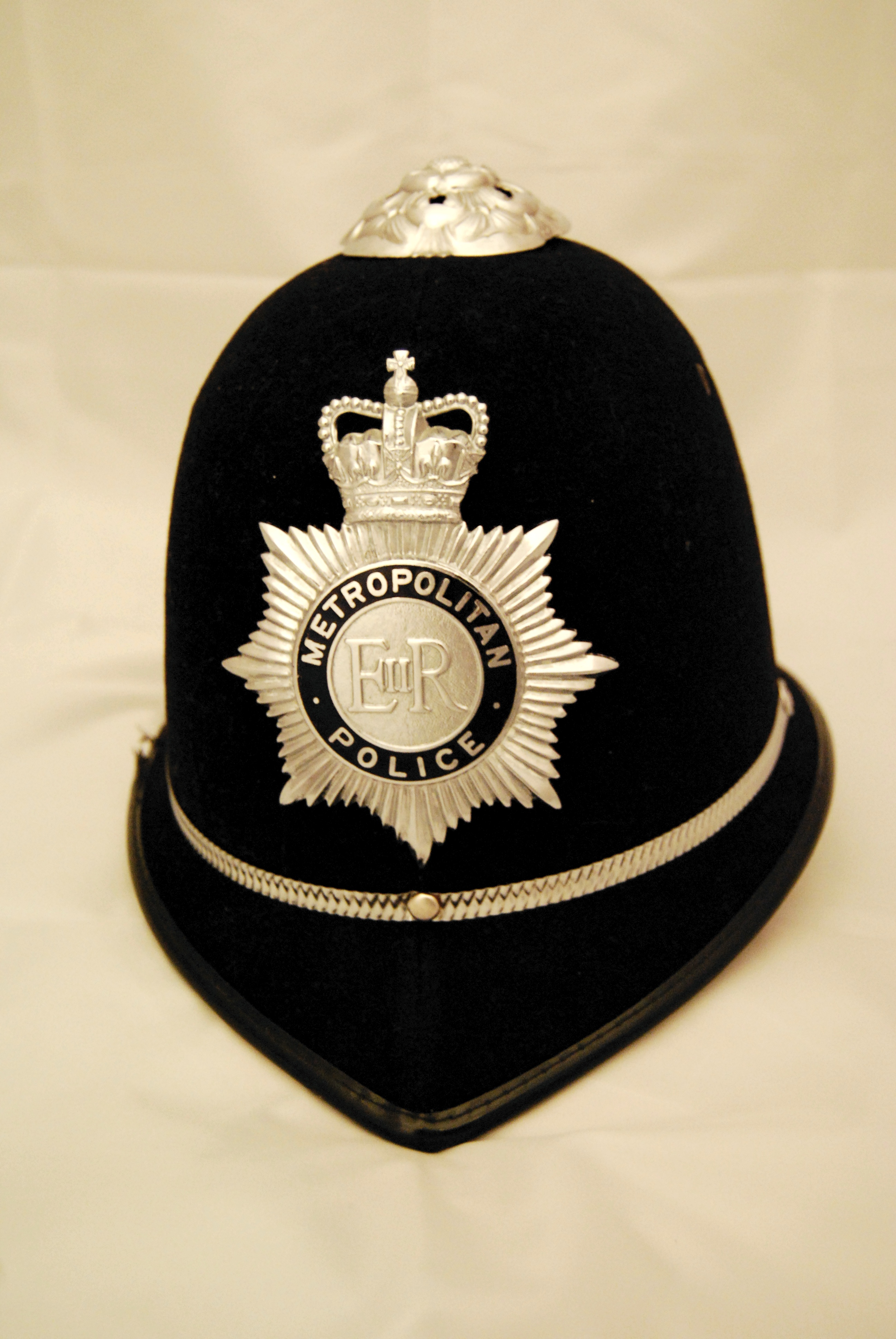 Custodian helmet ("bobby's helmet") of the Metropolitan Police Service in London, United Kingdom.